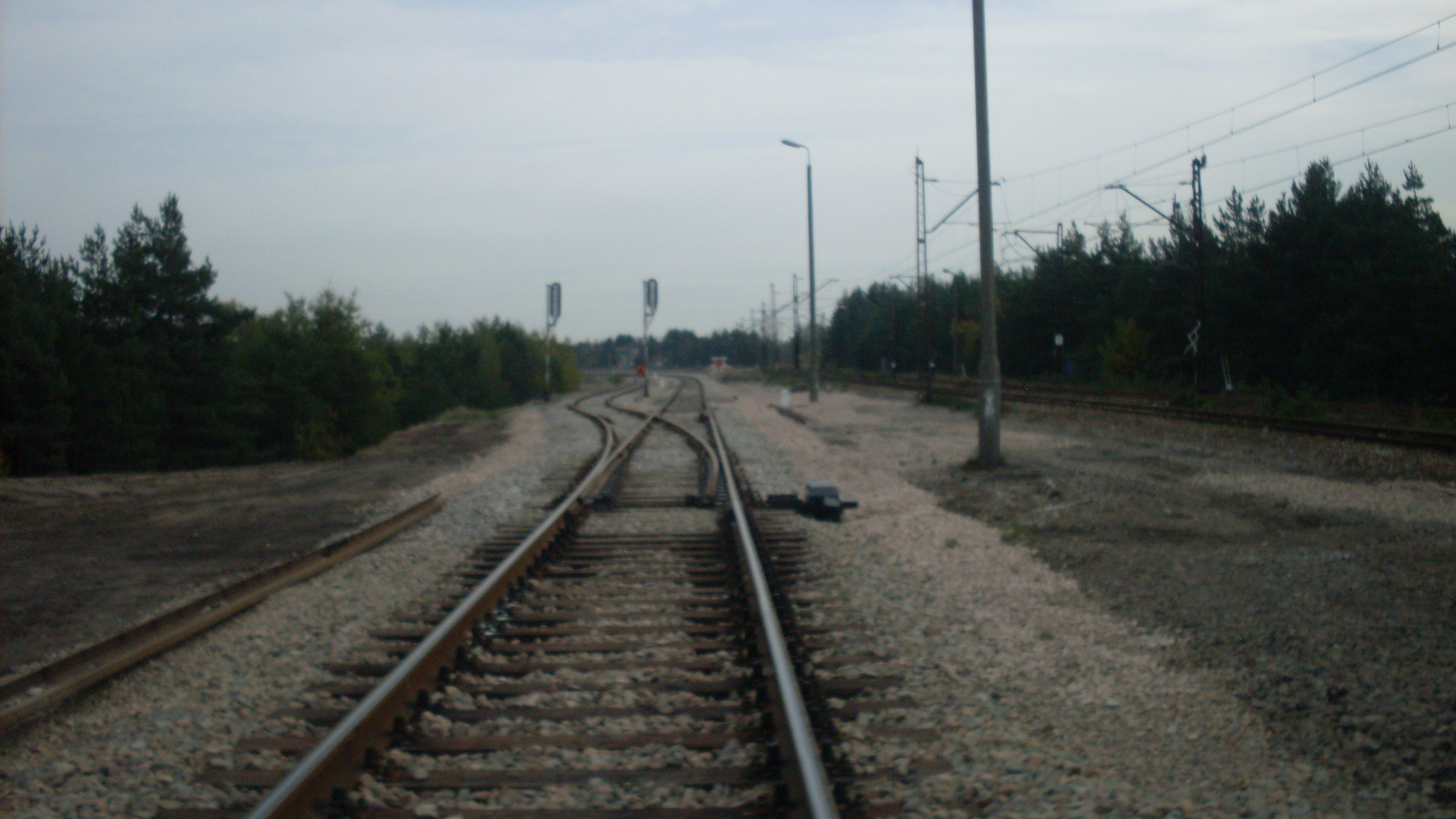 Bukowno. LHS